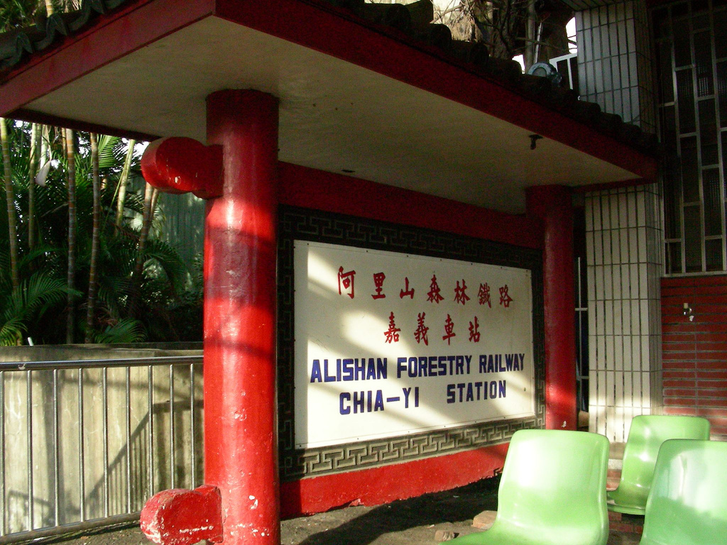 Alishan Forest Railway Chiayi Station.中文（台灣）: 阿里山森林鐵路嘉義車站招牌。